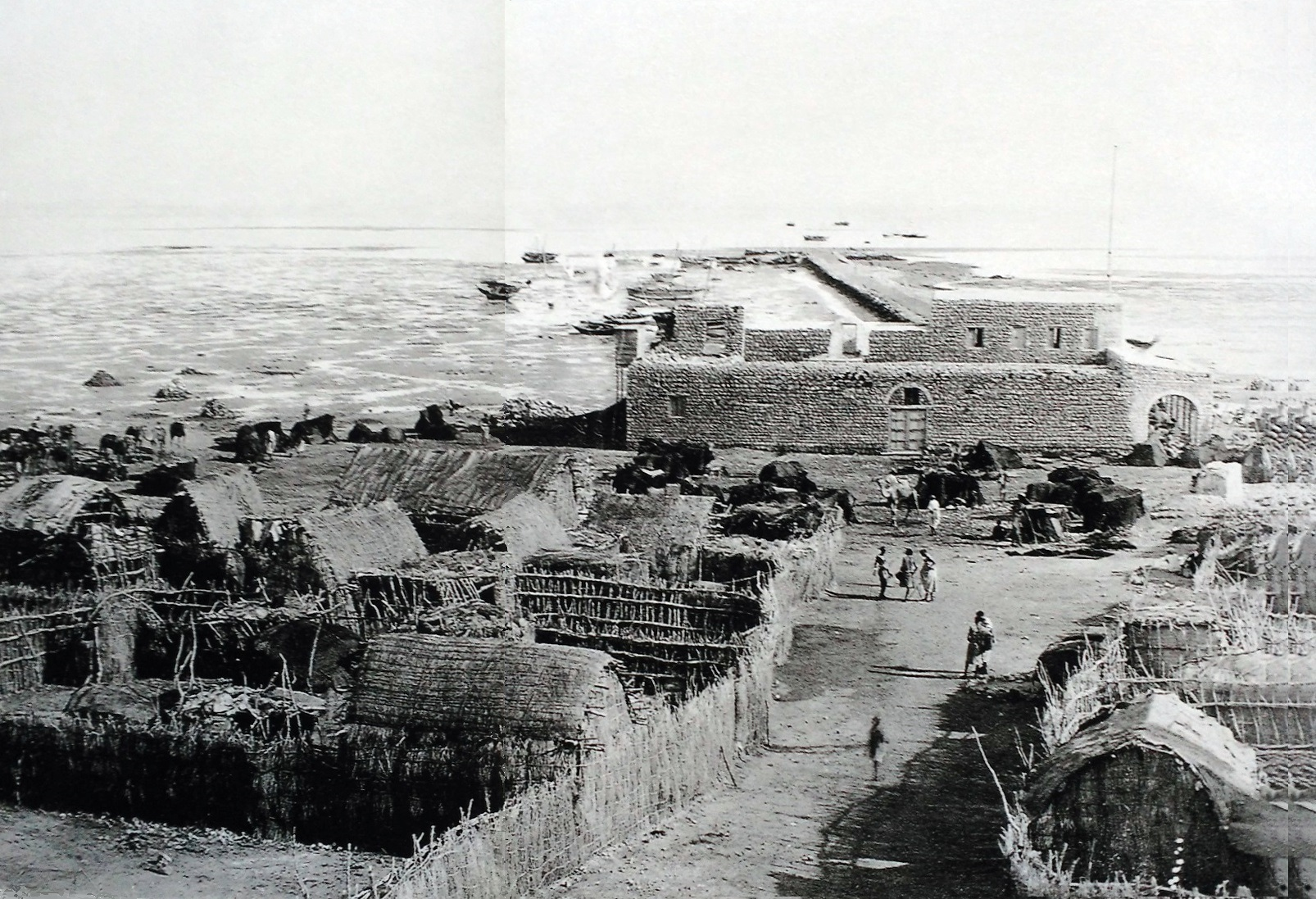 Photo showing the Zeila waterfront, with jetty and custom house, at low tide. Undated but most likely taken prior to the end of the Ottoman-Egyptian period (1885). This image has been made by joining together the two parts of the original photo which had been split in two.